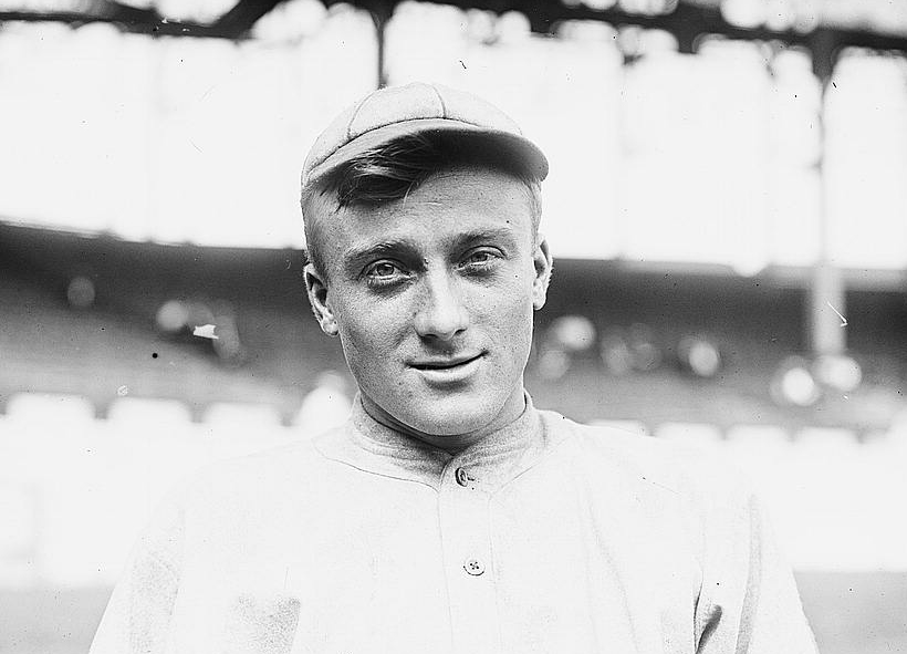 1913 photograph of Lee Magee, outfielder for the St. Louis Browns. This image is cropped slightly from the original plate.